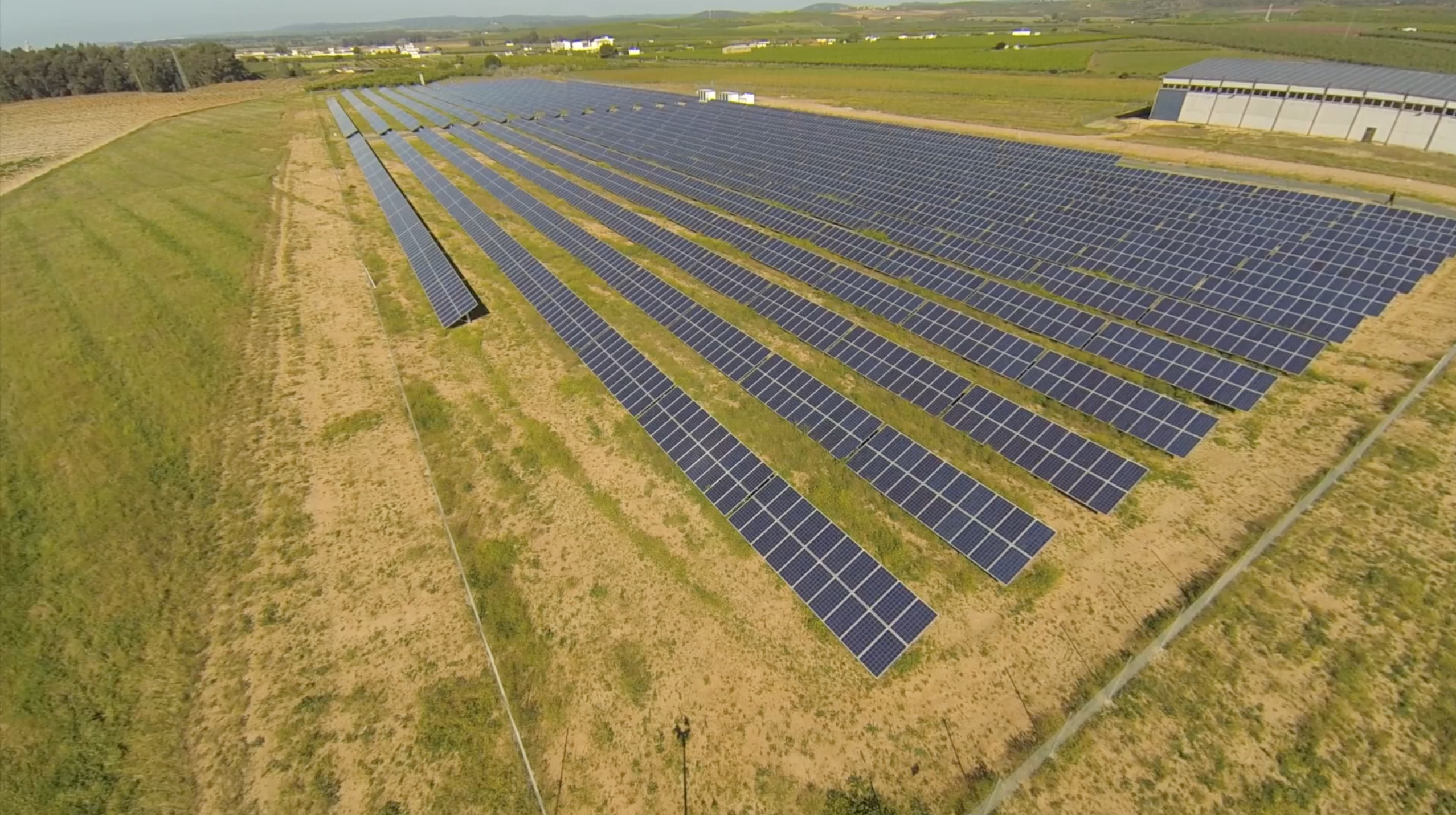 Solar PV power plant from Som Energia in Alcolea del Rio (Sevilla)